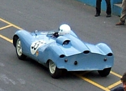 Adrian van der Kroft's Cooper T39 in the pit lane at the VSCC SeeRed race meeting, Donington Park, September 2007.